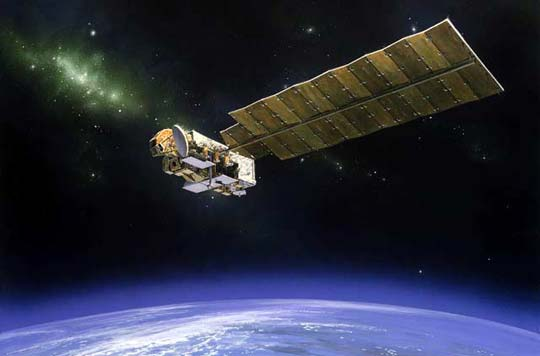 Aura satellite